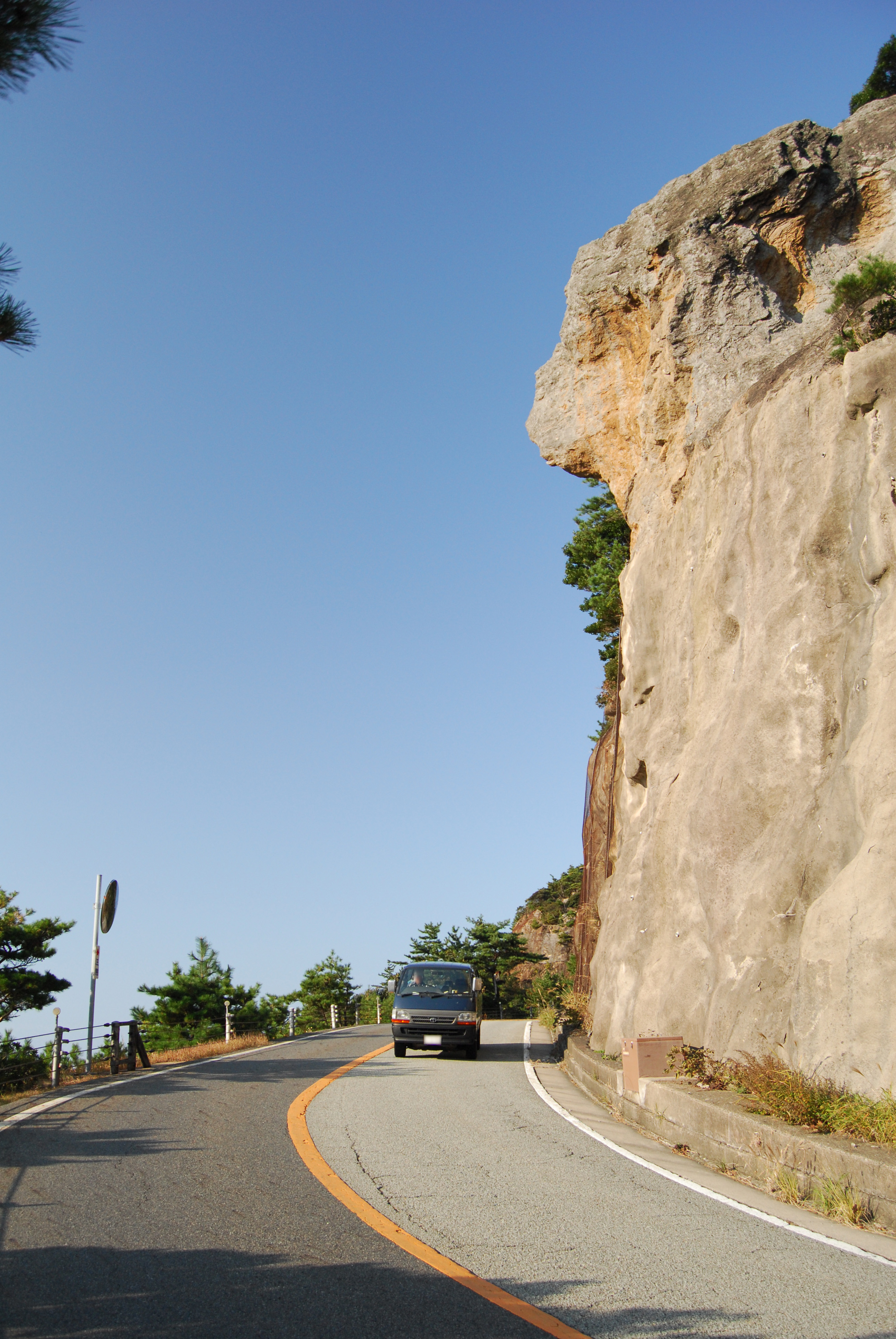 Coast road in Hyogo Prefecture northern part.